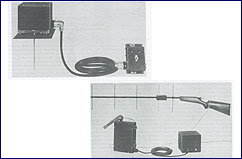 The first radio recognition IFF system in the U.S. Model XAE (1937). The airborne equipment, developed at NRL, shown at the top. The shipboard equipment is shown below. When in the vicinity of friendly ships, the aircraft equipment transmitted a series of coded signals. Aboard the ship, the Yagi antenna gun shaped equipment was pointed at the aircraft, to flash.